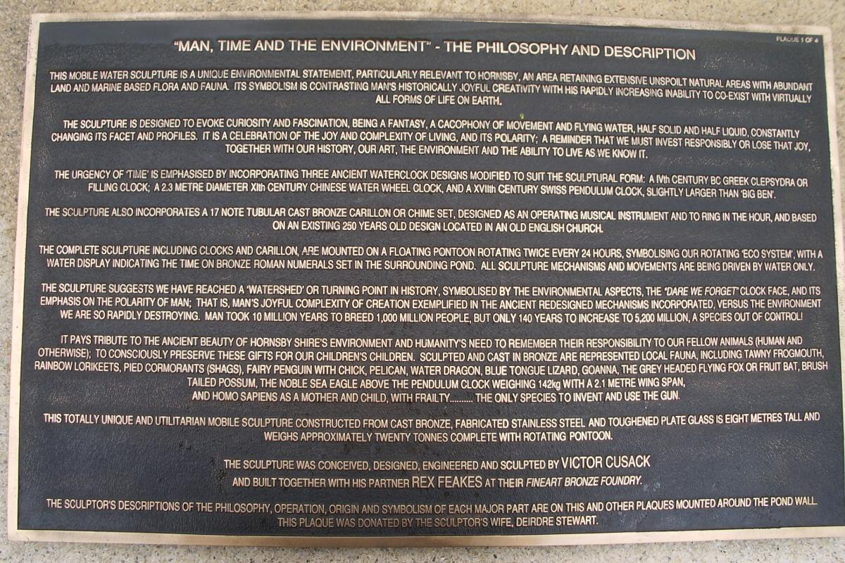 Hornsby water clock: Plaque 1 of 4 giving overview of the fountain/clock.